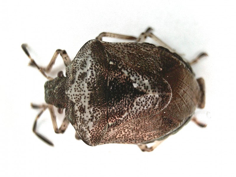 Eysarcoris venustissimus (Pentatomidae) (Woundwort Shieldbug) - (imago), Elst (Gld) - De Park, the Netherlands